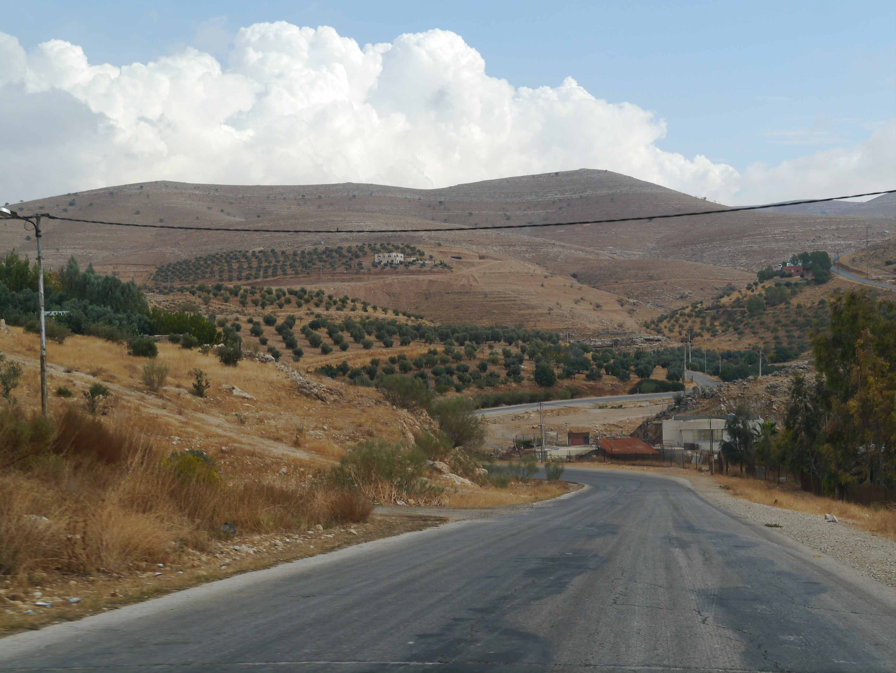 Syrian Desert, Eastern Jordan